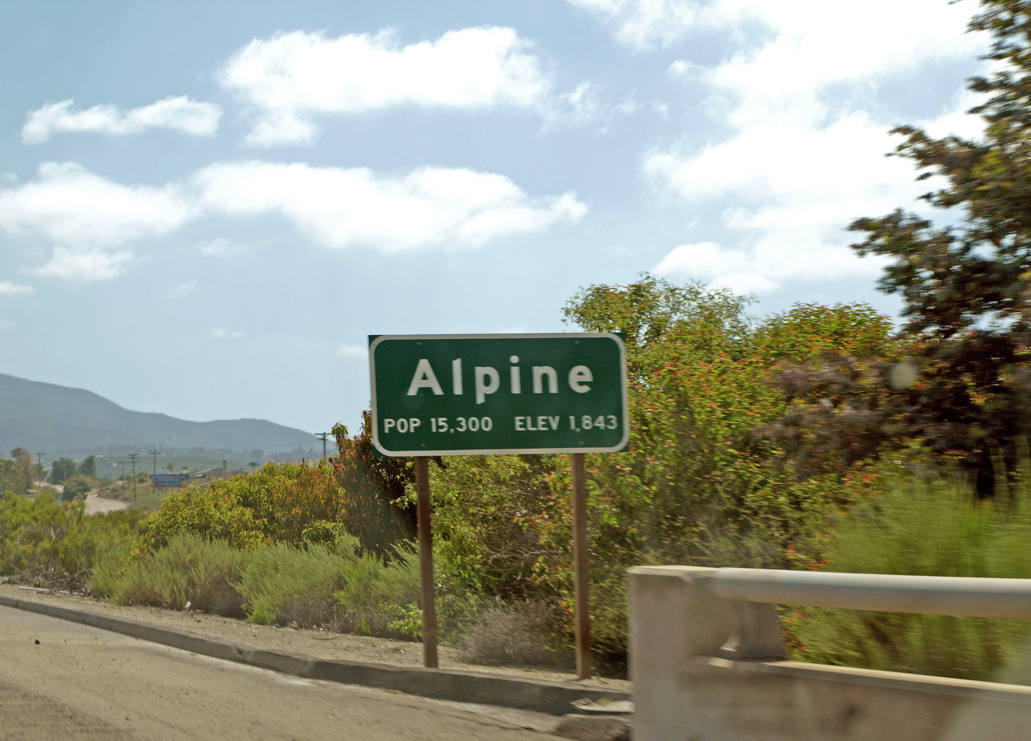 Western town limit sign for the census-designated place of Alpine, California as seen from the eastbound lane of Interstate 8 at the Dunbar Lane/Viewside Lane overpass. View looking southeast. This photograph was taken with an Olympus E-510 DSLR camera and edited (color balance, brightness, contrast, saturation, sharpness) using ArcSoft PhotoStudio 5.5